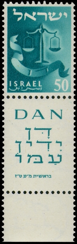 Tribes stamp - 50 mil - Dan. Second definitive series. Inscription on tab: "Dan shall judge his people..." Genesis IL, 16.